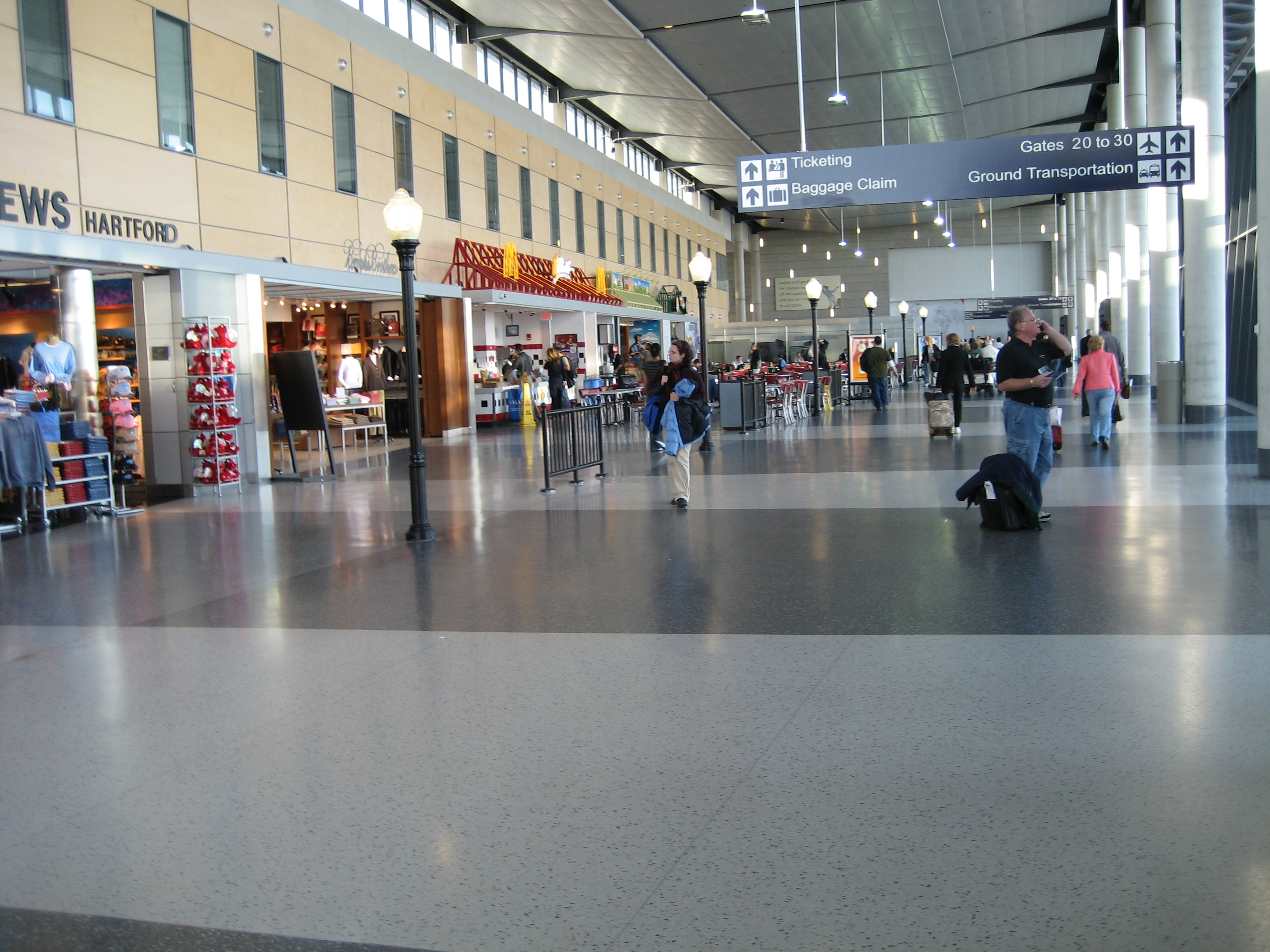 Source: My Own Work.